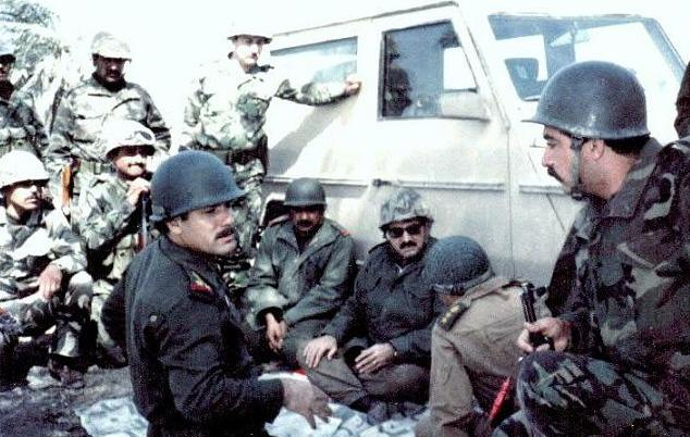 Photo of Wafiq Al-Samarrai (center left) taken during the Iran-Iraq War.